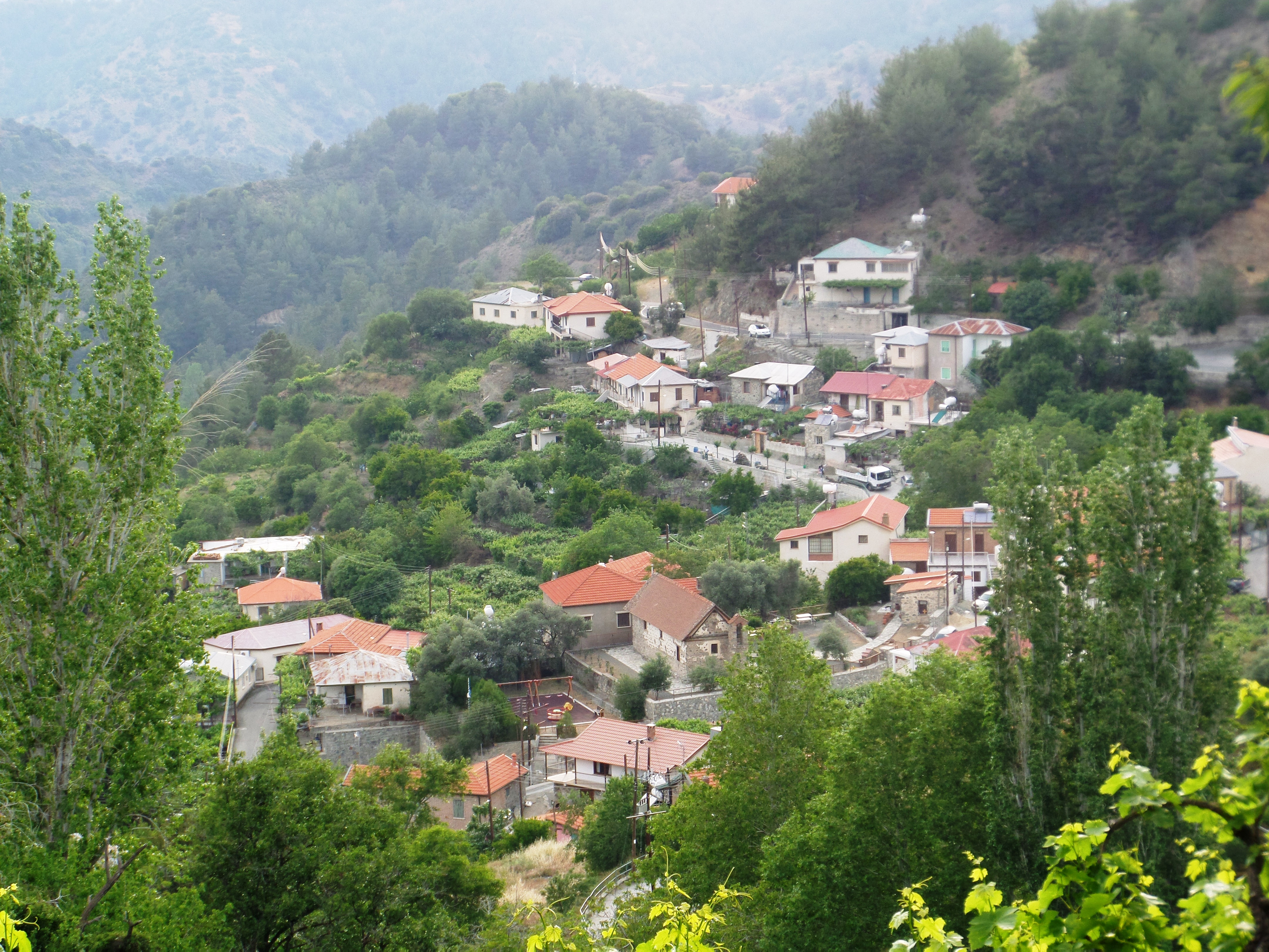 View of Agios Dimitrios, Cyprus.